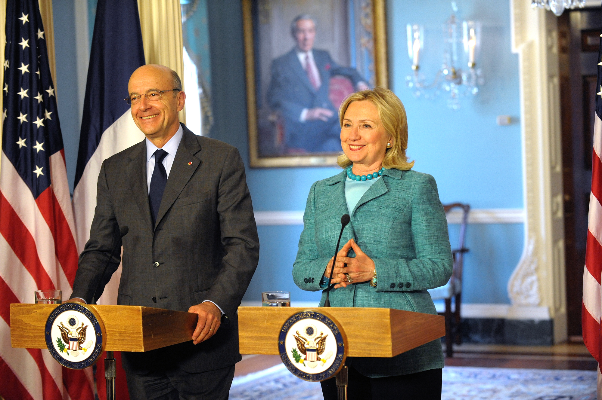 Secretary Clinton holds a bilateral meeting with French Foreign Minister Alain Juppe, at the Department of State on June 6, 2011